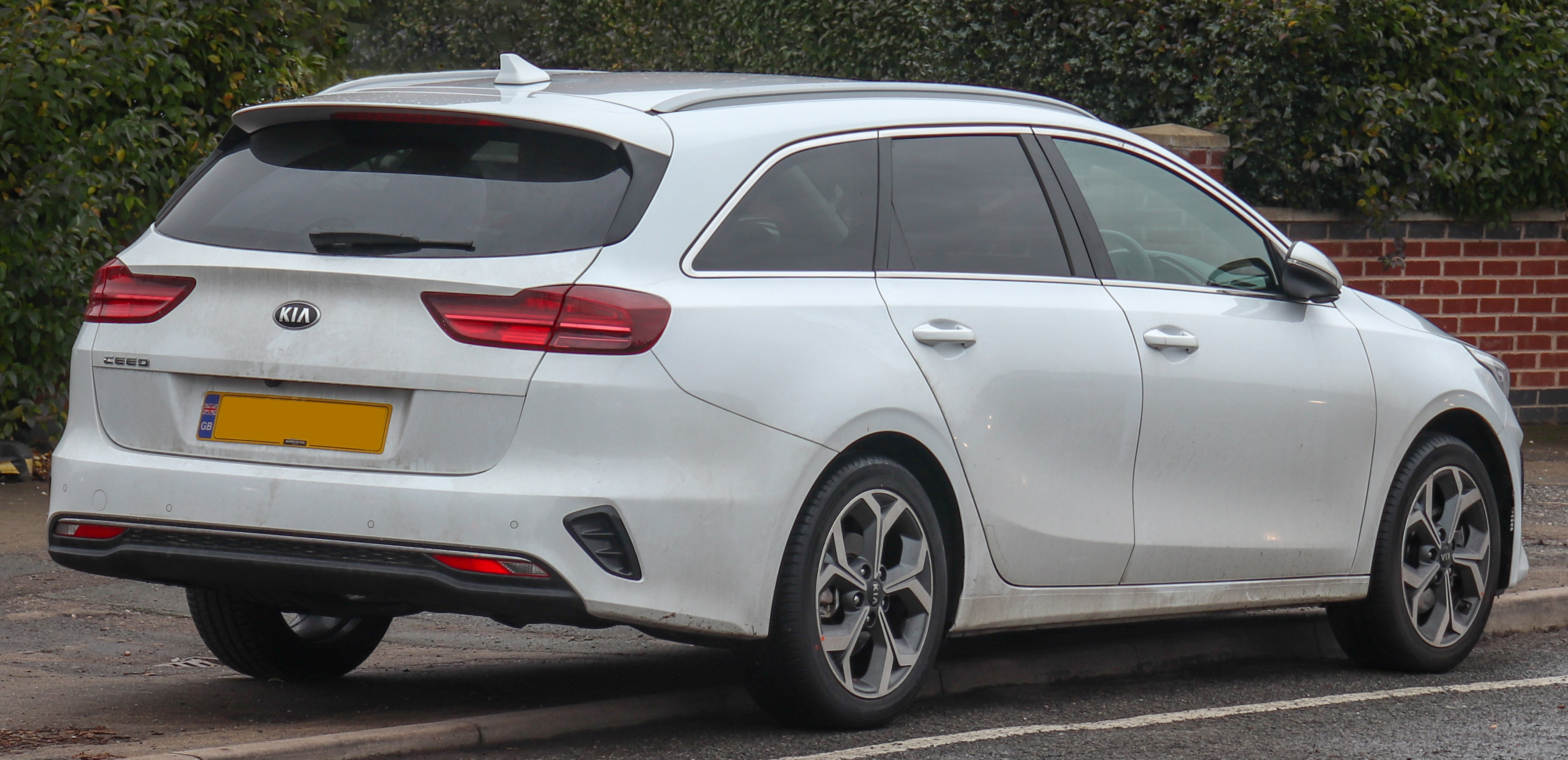 2018 Kia Ceed 3 SW CRDi ISG 1.6 Rear Taken in Warwick